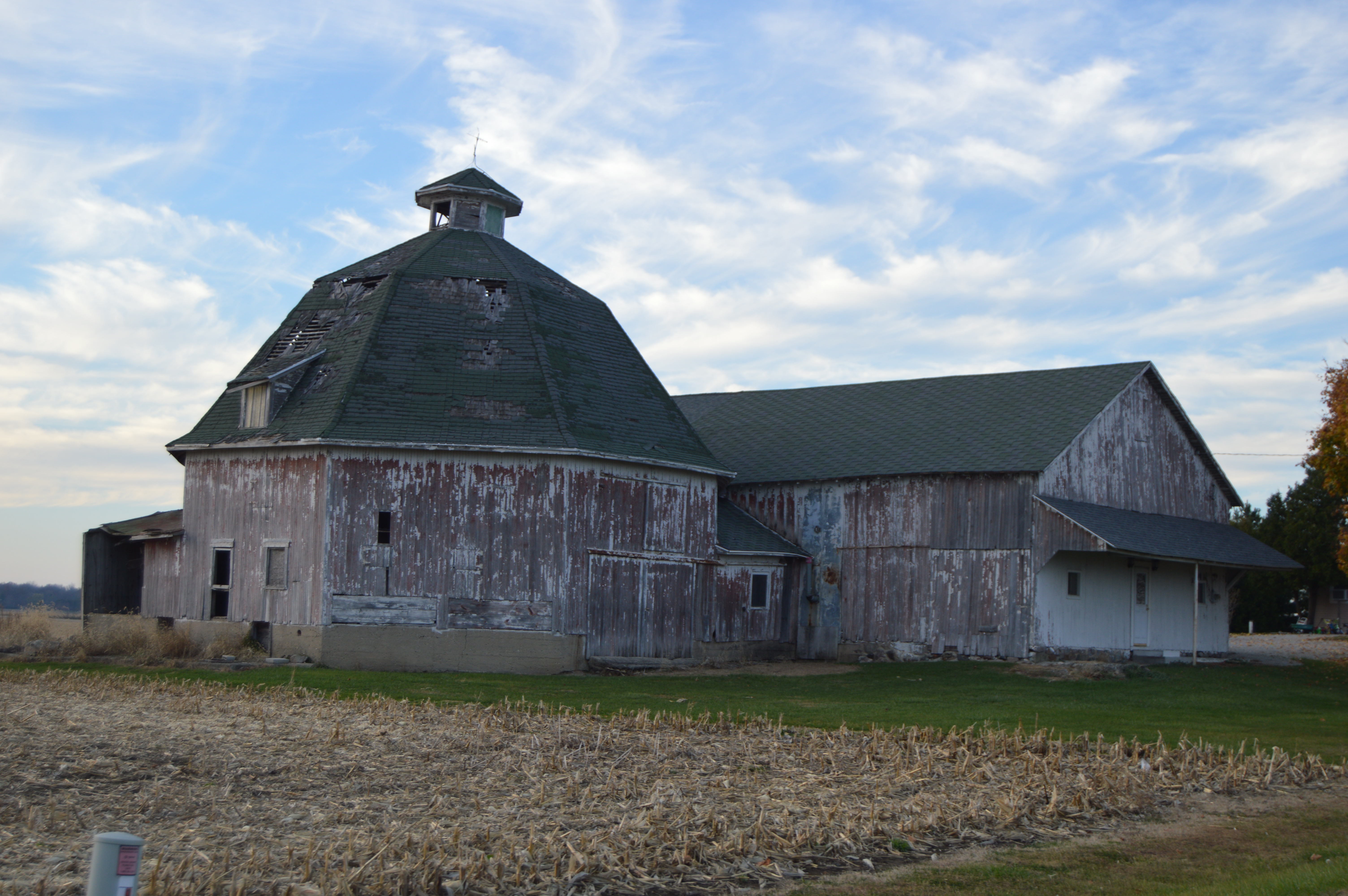 Roadside view of a combined traditional barn and round barn located on the western side of Gettysburg-Pitsburg Road north of Neff Road in Franklin Township, Darke County, Ohio, United States. It was built in 1900.